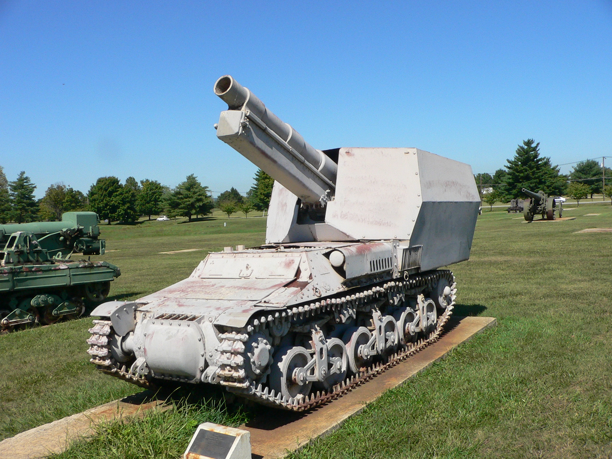 Picture taken by myself, Mark Pellegrini, at the United States Army Ordnance Museum (Aberdeen Proving Ground, MD)